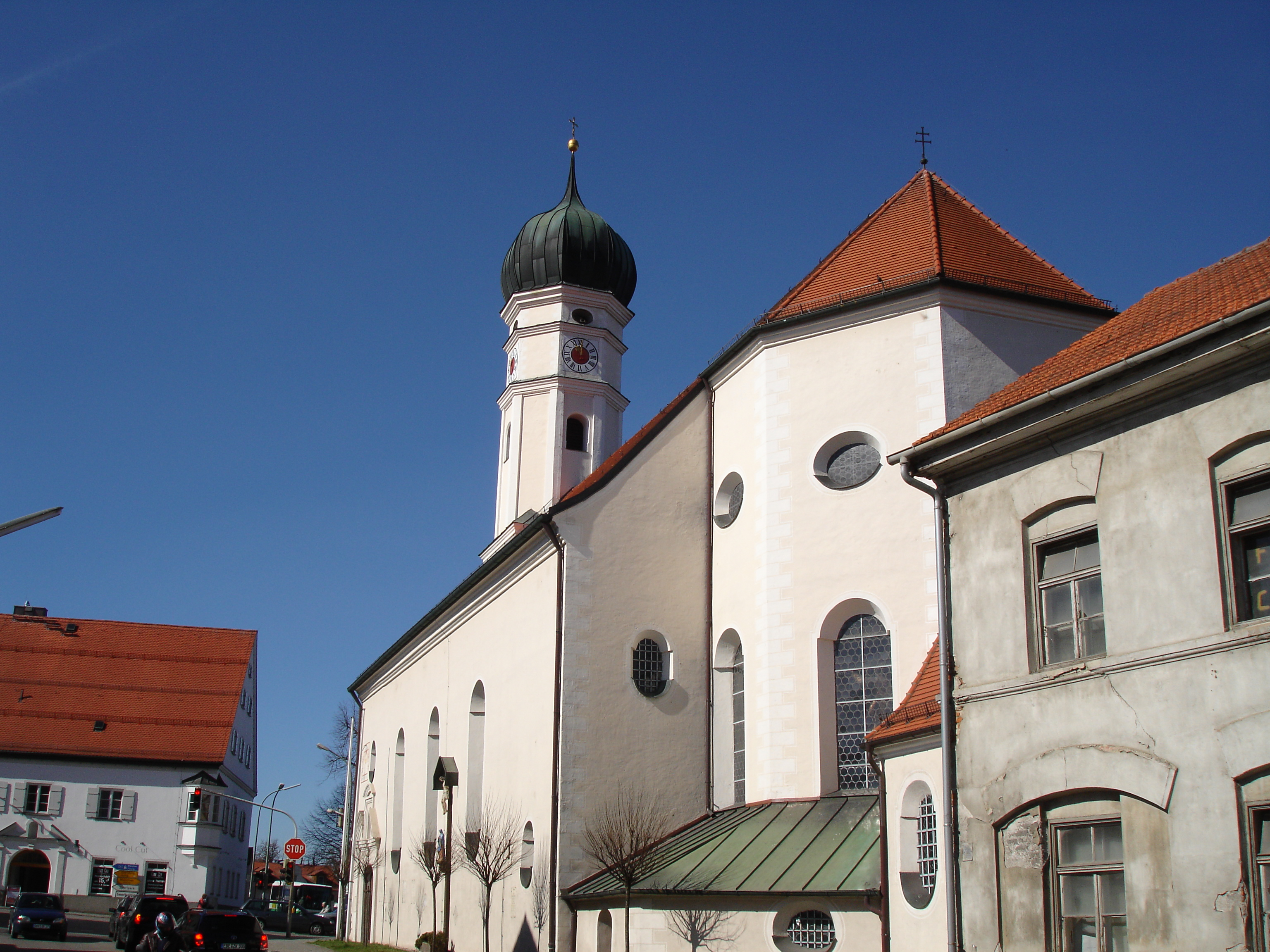 Church of Markt Schwaben, county Ebersberg, Bavaria, Germany Picture by J. Patrick Fischer